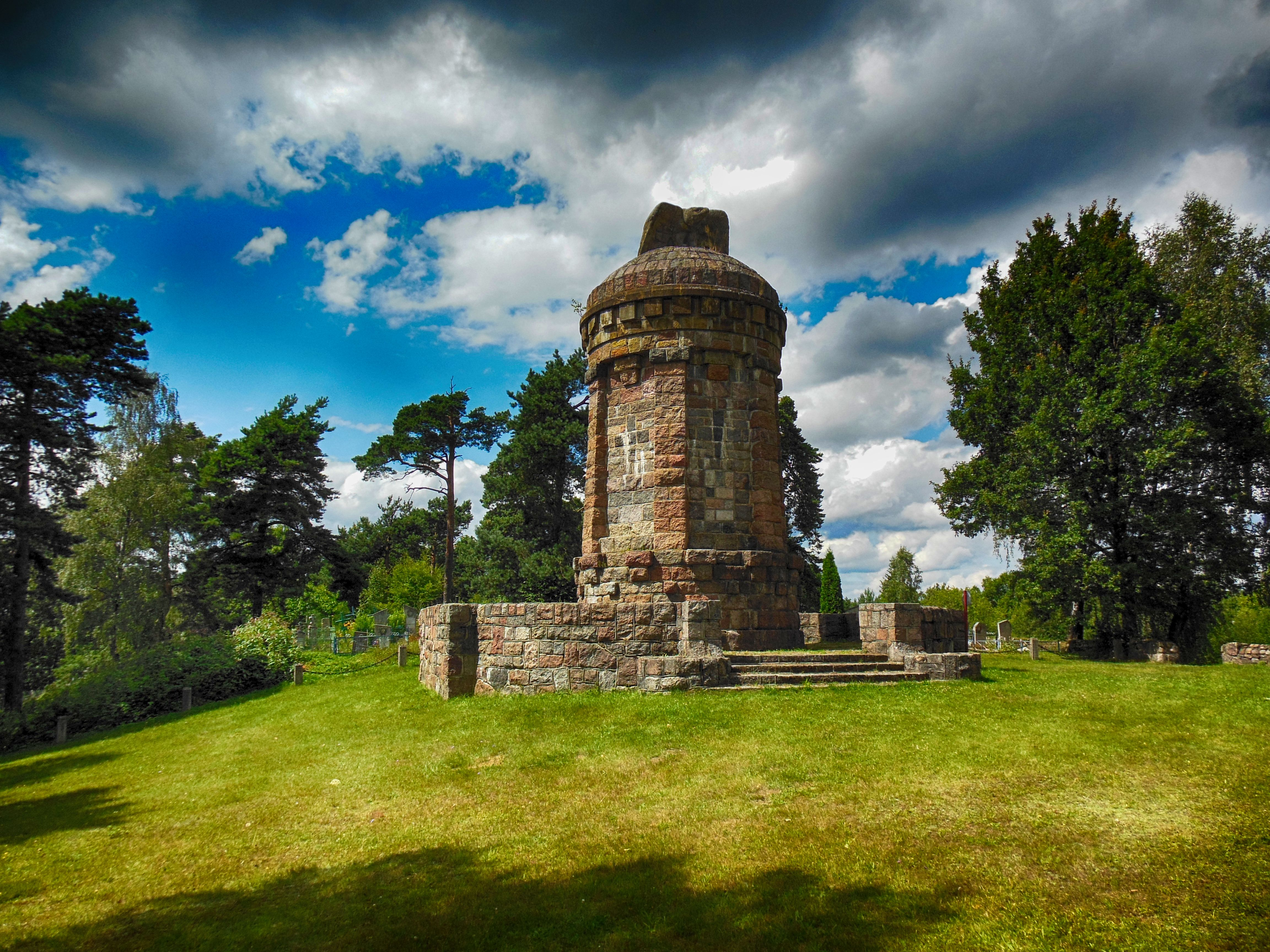 Беларуская (тарашкевіца): Капліца. в. Дзясятнікі This is a photo of Belarusian heritage monument. Reference number: 613Г000083 ( WLM)